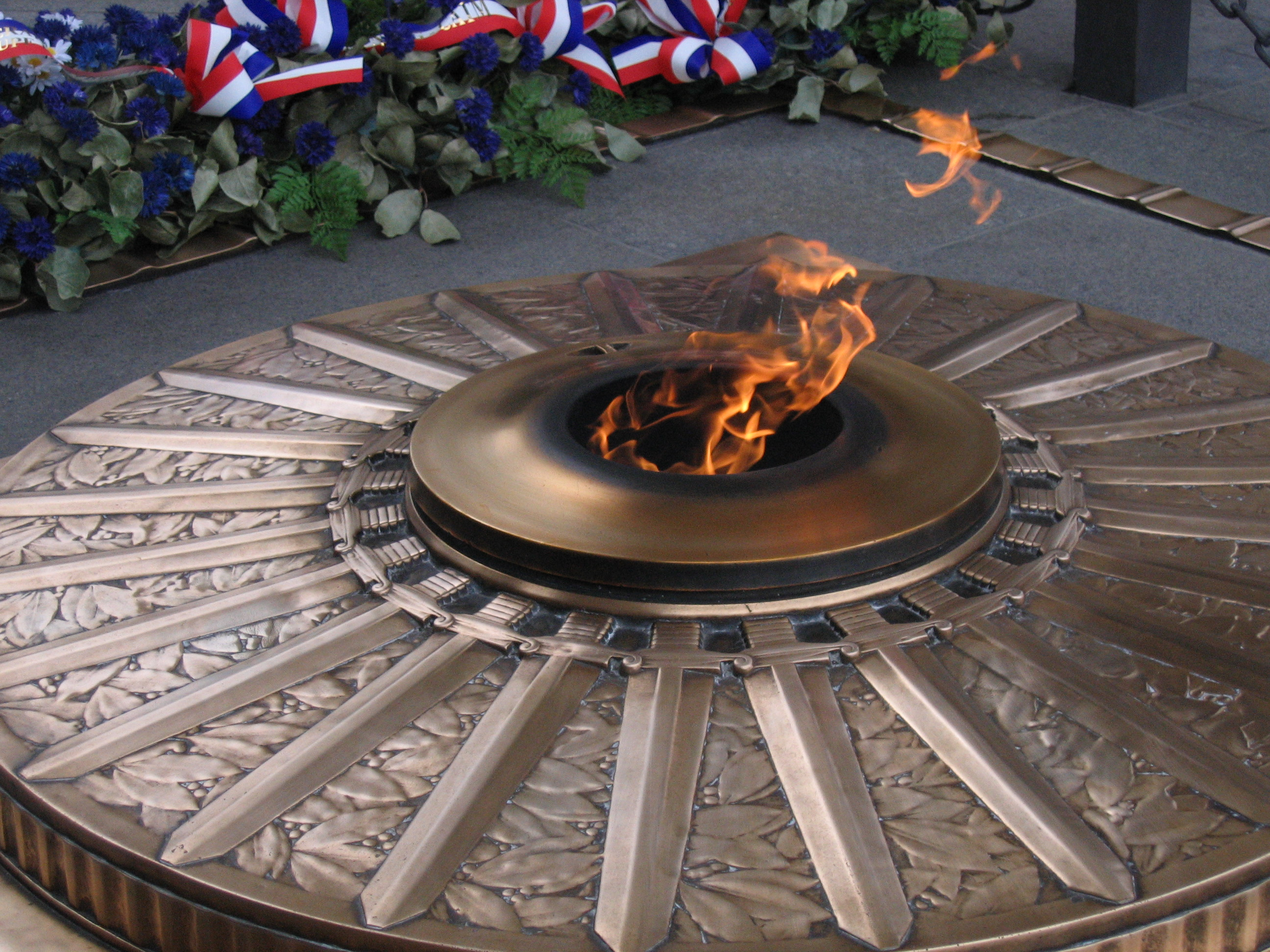 unknown solder tomb